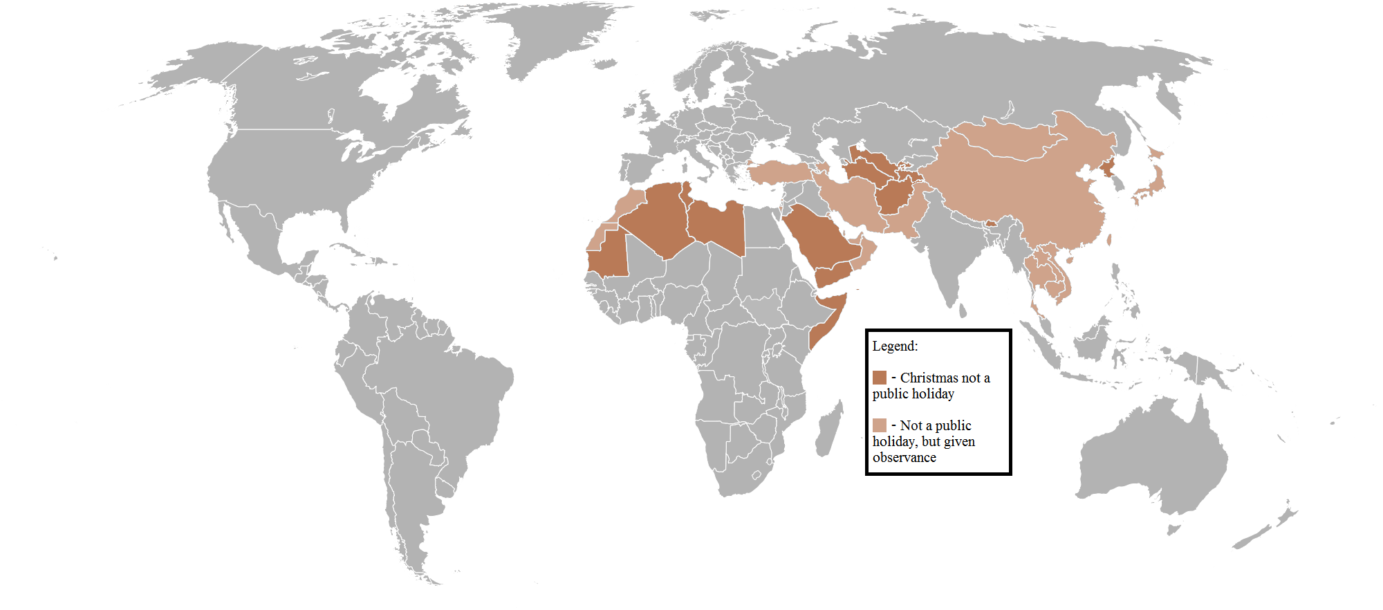 Map of countries that do not recognize Christmas on December 25 or January 7 as a public holiday. Afghanistan, Algeria, Bhutan, North Korea, Libya, Mauritania, Sahrawi Arab Democratic Republic, Saudi Arabia, Somalia, Tajikistan, Tunisia, Turkmenistan, and Yemen do not recognize Christmas as a public holiday. Azerbaijan, Bahrain, Cambodia, China, Comoros, Iran, Israel, Japan, Kuwait, Laos, Maldives, Mongolia, Morocco, Oman, Pakistan, Qatar, Thailand, Turkey, Uzbekistan and the United Arab Emirates and Vietnam do not recognize Christmas as a public holiday, but the holiday is given observance. Taiwan: December 25 is observed in Taiwan as the Constitution Day, but is not an official holiday observed by civil servants of the central government. Some sectors of the workforce may have time off. It is not designated for Christmas, but for the anniversary of the 1947 ROC Constitution. Pakistan: December 25 is a public holiday in Pakistan, but is not designated for Christmas, but for the birthday of Muhammad Ali Jinnah, the founder of Pakistan.